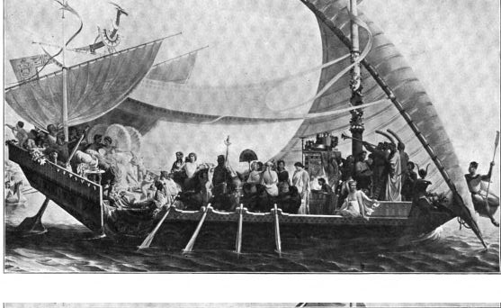 Cléopâtre et Antoine sur le Cydnus